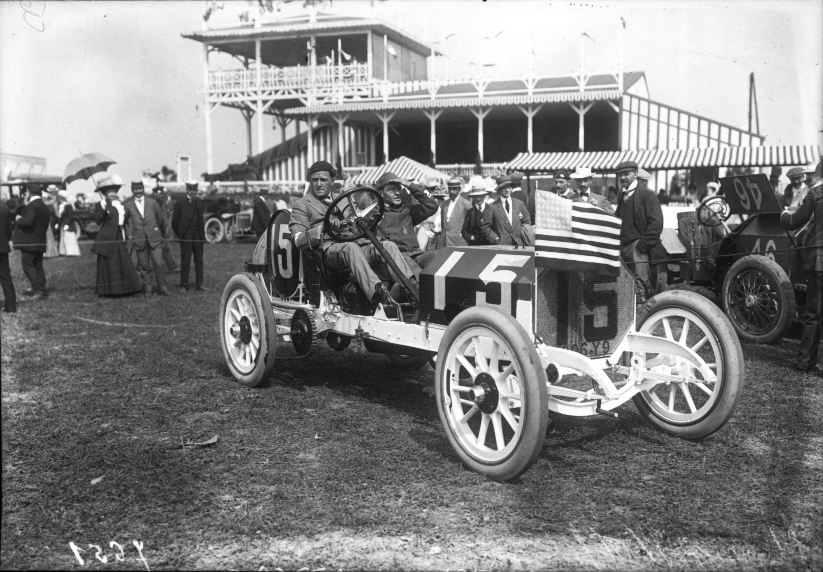 Lewis Strang in his Thomas at the 1908 French Grand Prix at Dieppe.